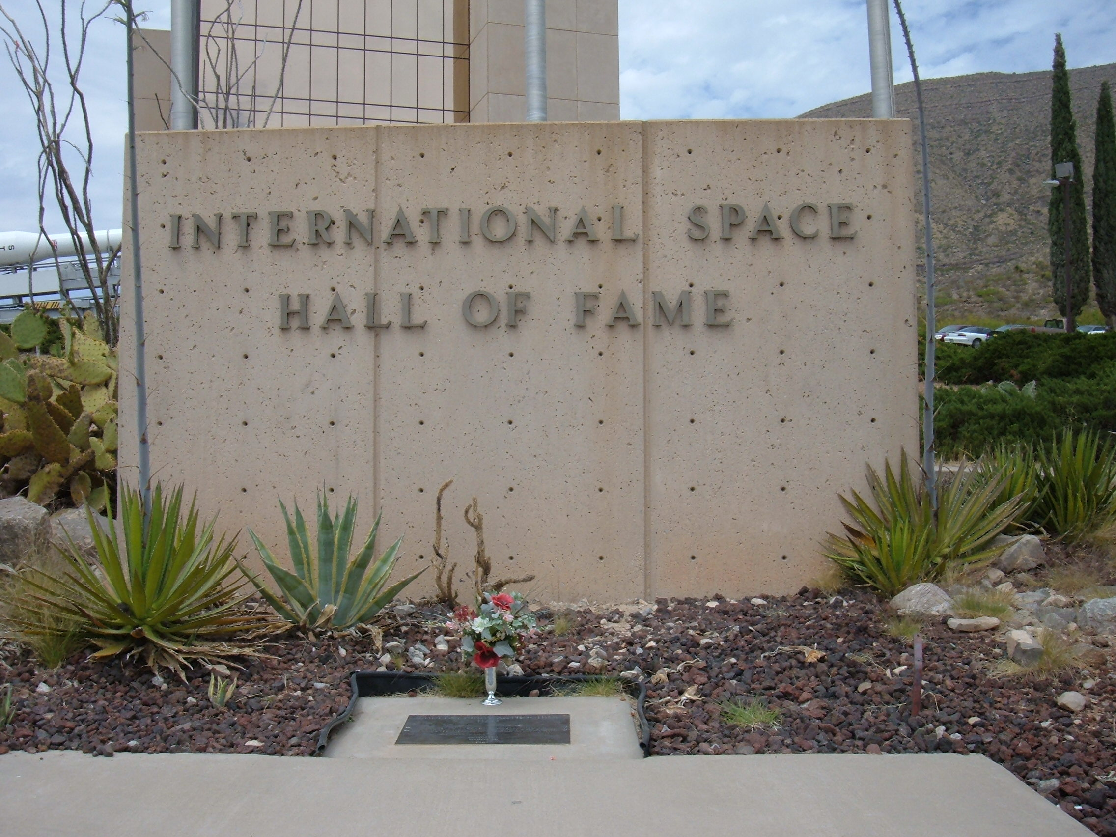 Grave of Ham, world's first astro-chimp, by the flagpoles in front of the New Mexico Museum of Space History, Alamogordo, New Mexico.